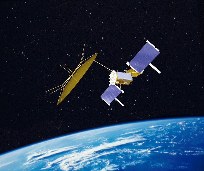 MUOS communication satellite: Copyright © U.S. Navy Ref. Id.: m02006120300444 Sunday, December 03, 2006